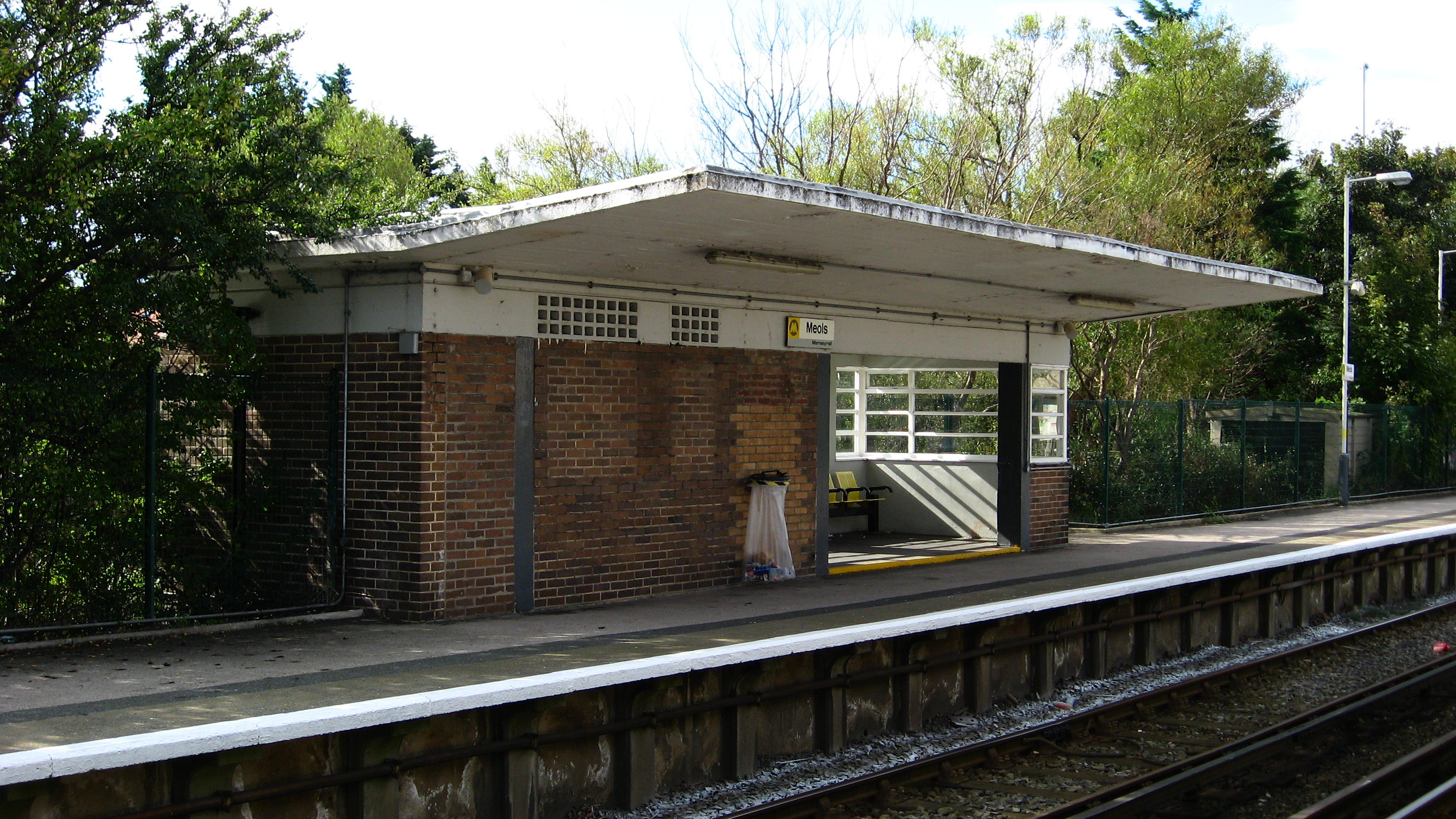 The art deco station shelter (direction West Kirby) at Meols station, Merseyside.